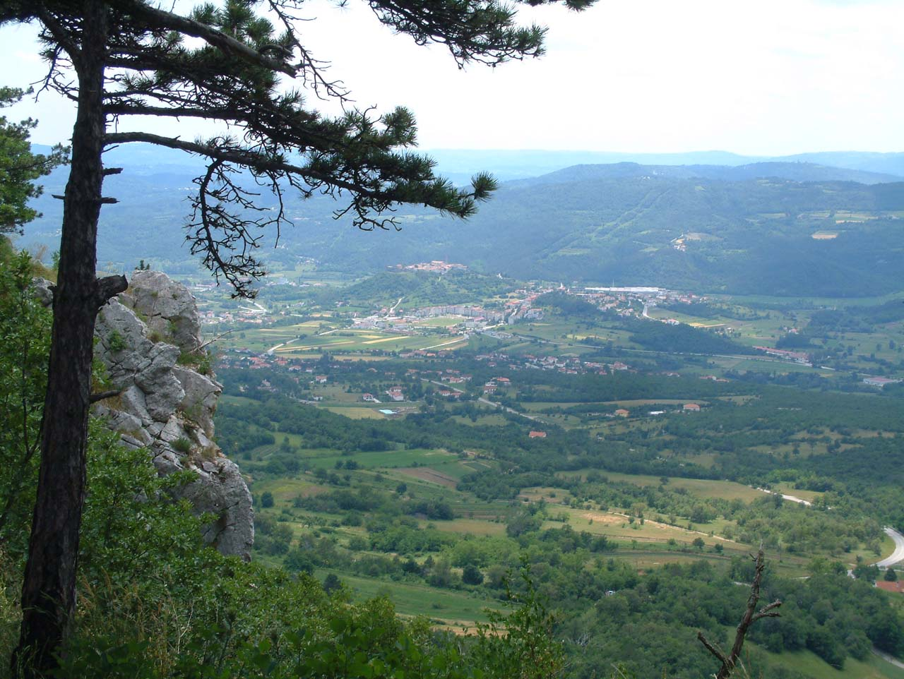 City of Buzet, Croatia, by K. Korlević